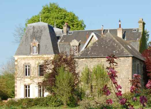 Photograph of the Chateau at La Caine, Normandy, France.